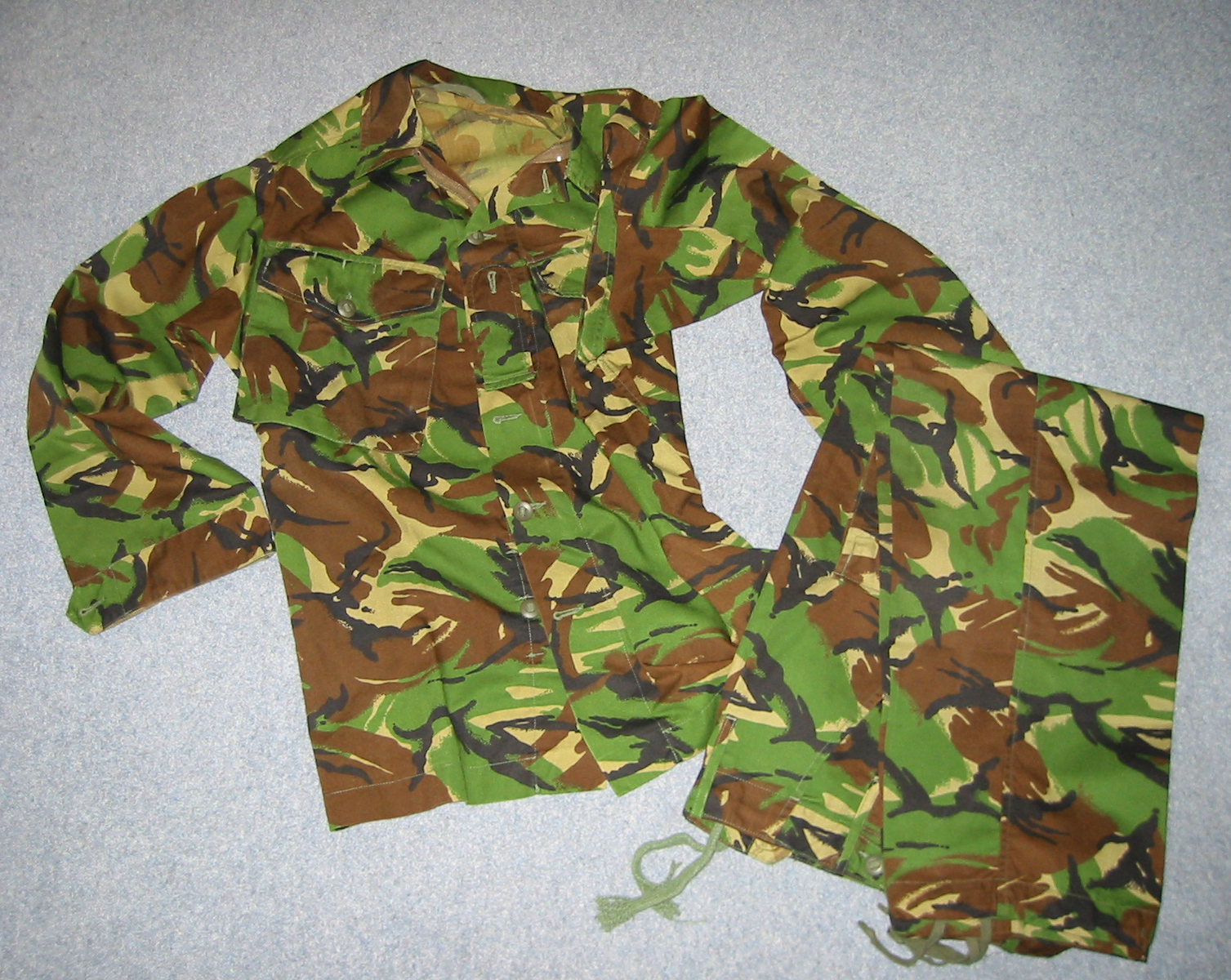 British army No8 dress